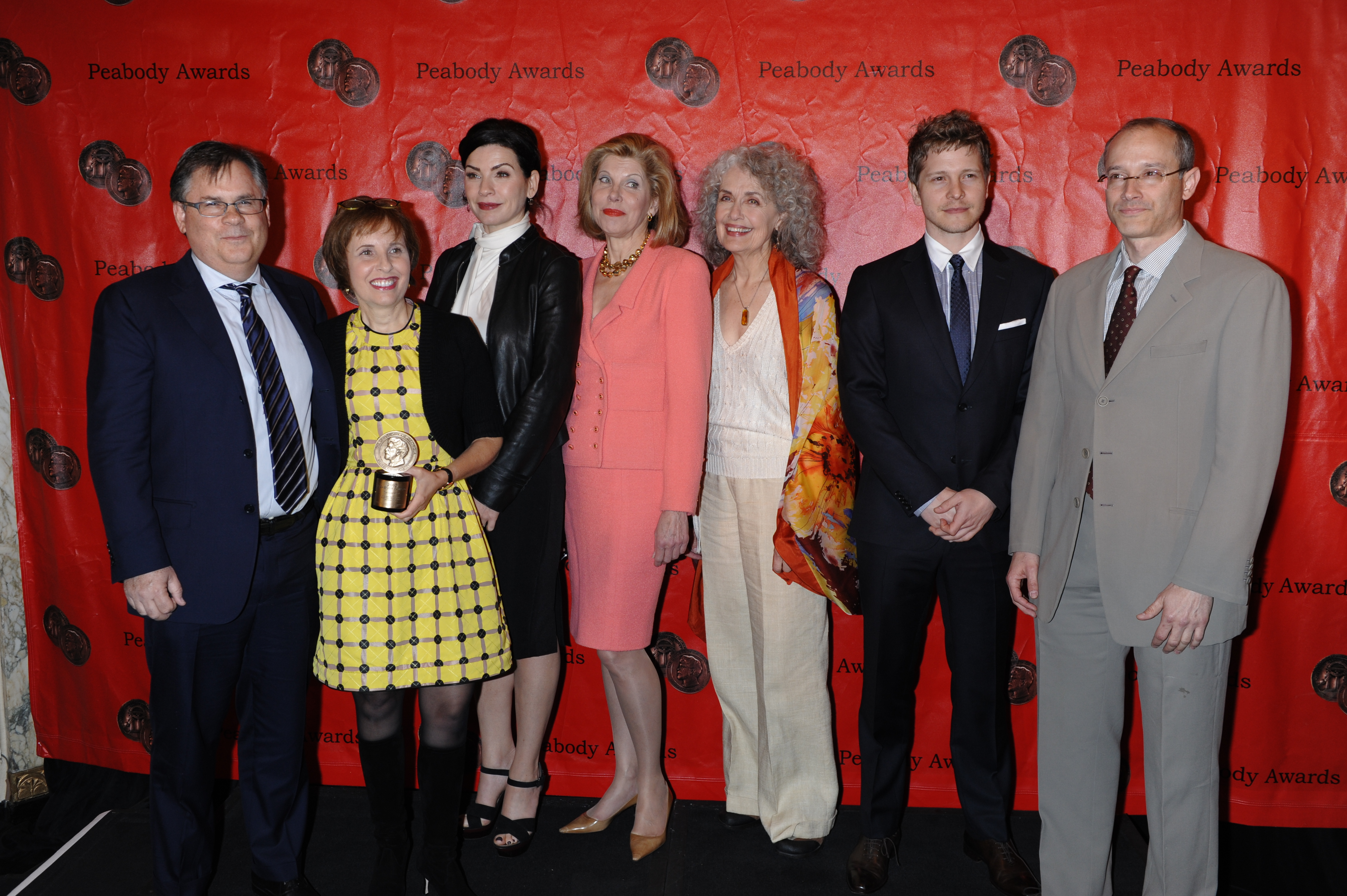 PHOTO CREDIT: ANDERS KRUSBERG / PEABODY AWARDS Robert King, Michelle King, Julianna Margulies, Christine Baranski, Mary Beth Peil, Matt Czuchry and David Zucker 70th Annual Peabody Awards Luncheon Waldorf=Astoria Hotel May 23, 2011